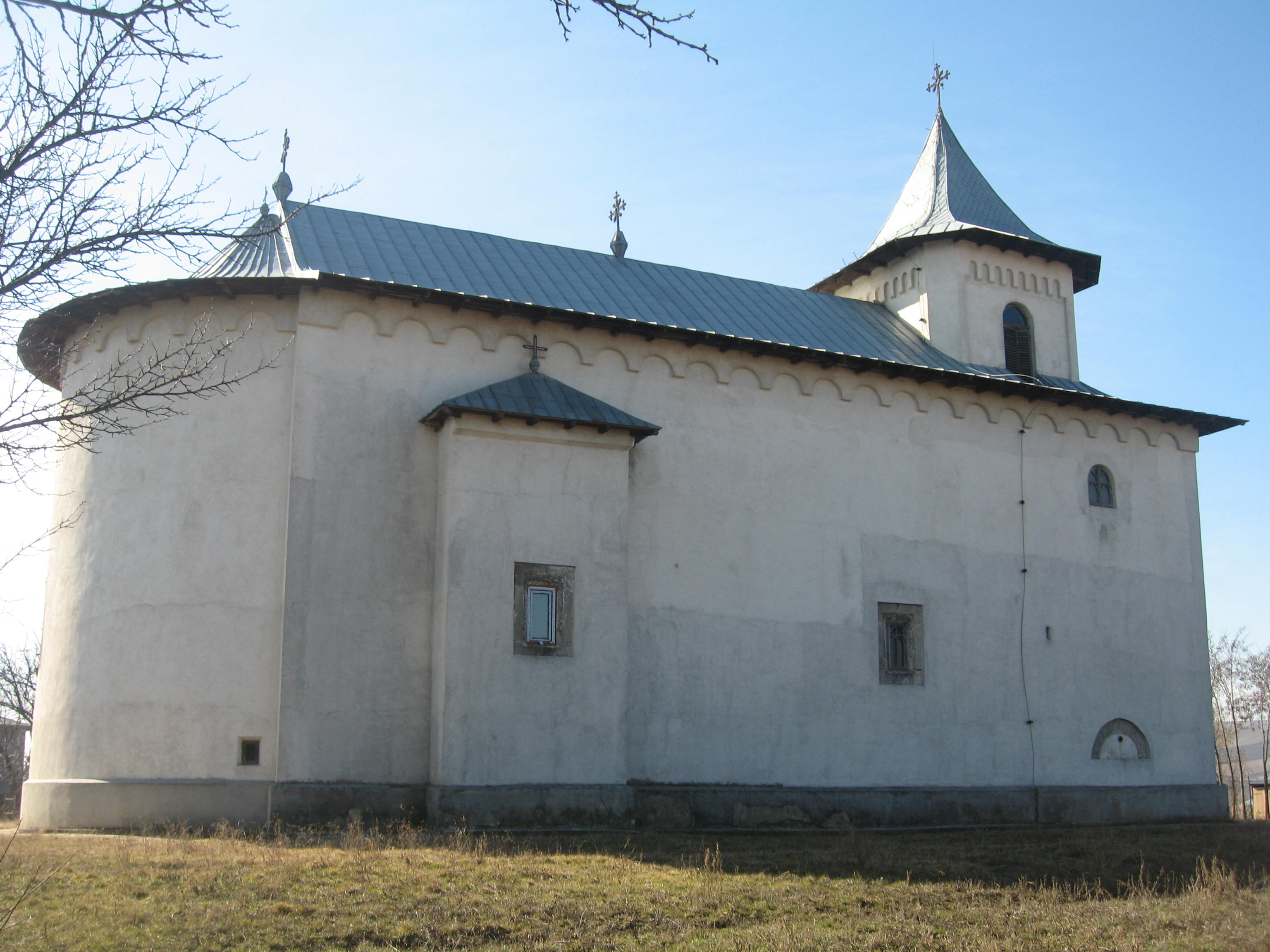 Biserica Sf. Voievozi din Scânteia